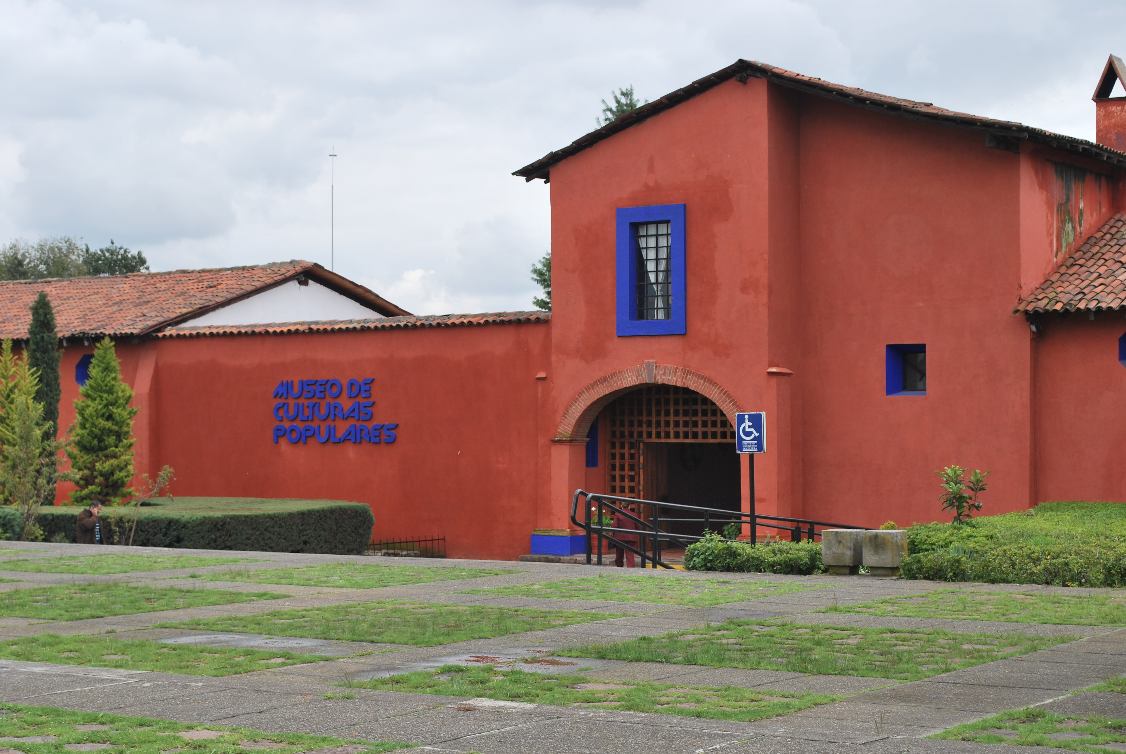 View of the Museo de las Culturas Populares of the Centro Cultural Mexiquense in Toluca, Mexico